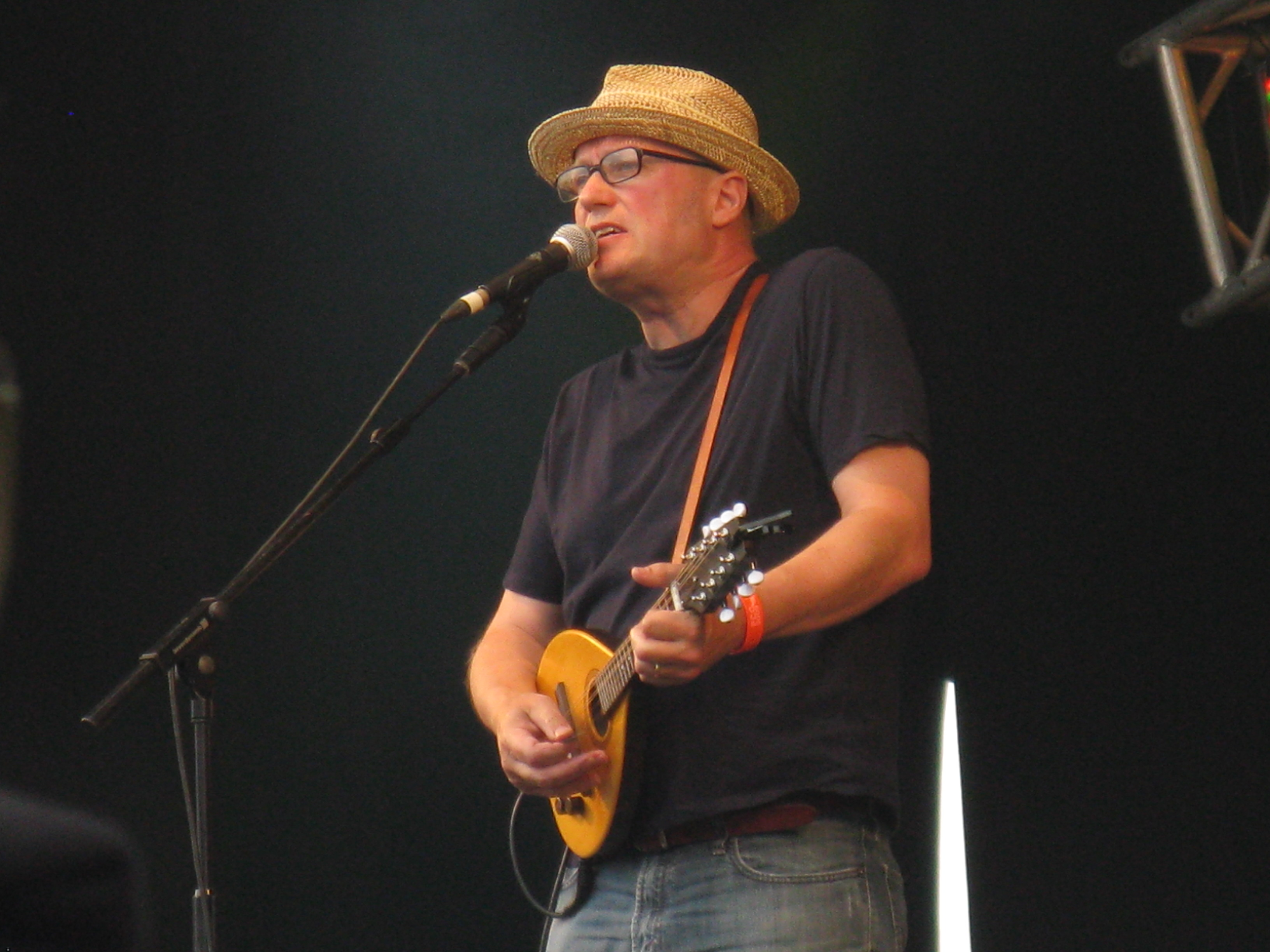 English musician Adrian Edmondson (of the Bad Shepherds) during their set at the 2009 Cropredy Festival.